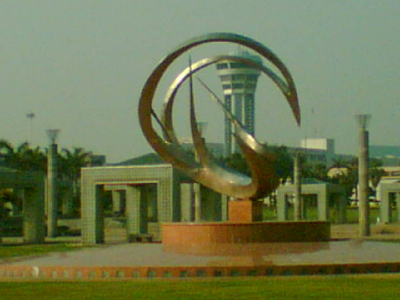 This photo was taken on May 2006. —Public Domain. There is some question whether it is possible under existing law to release one's work into the public domain; but this is still the "license" of choice for some.